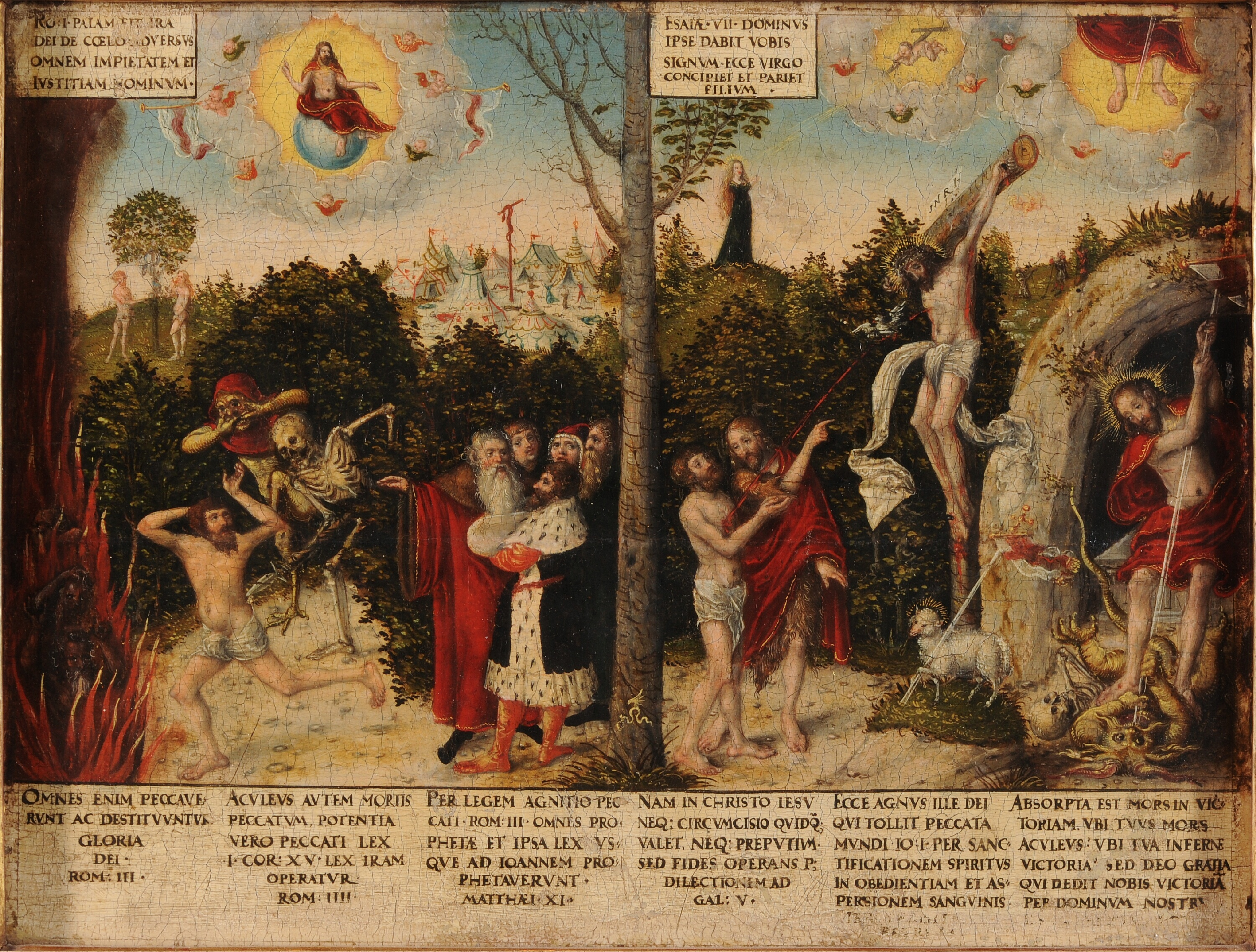 Text top left: RO: I PALAM [FIT] IRA DEI DE COELO [A]DVERSUS OMNEM IMPIETATEM ET IVSTITIAM[1] HOMINUM. Text top center: ESAIAE VII DOMINVS IPSE DABIT VOBIS SIGNVM ECCE VIRGO CONCIPIET ET PARIET FILIVM in the text block at the bottom edge of the painting, in six columns: OMNES ENIM PECCAVERVNT AC DESTITVVNTV[R] GLORIA DEI ROM: III ACVLEVS AVTEM MORTIS PECCATVM POTENTIA VERO PECCATI LEX I COR: XV LEX IRAM OPERATVR ROM: IIII PER LEGEM AGNITIO PEC CATI ROM: III OMNES PROPHETAE ET IPSA LEX VSQUE AD IOANNEM PROPHETAVERVNT MATTHAEI XI NAM IN CHRISTO IESV NEQ: CIRCVMCISIO QVIDQ VALET NEQ: PREPVTIVM SED FIDES OPERANS P DILECTIONEM AD GAL: V ECCE AGNVS ILLE DEI QVI TOLLIT PECCATA MVNDI IO: I PER SANCTIFICATIONEM SPIRITVS IN OBEDIENTIAM ET ASPERSIONEM SANGVINIS [?] I] ABSORPTA EST MORS IN VICTORIAM VBI TVVS MORS ACVLEVS VBI TVA INFERNE VICTORIA SED DEO GRATIA QVI DEDIT NOBIS VICTORIA[M] PER DOMINVM NOSTR [?] ↑ Die Wortlaut des Römerbriefs in der Vulgata: "INIVSTITIAM HOMINUM"